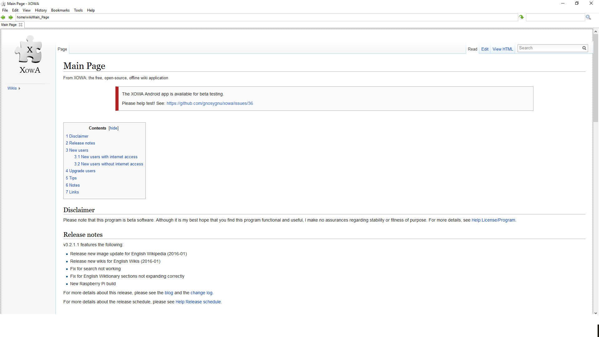 screenshot I took